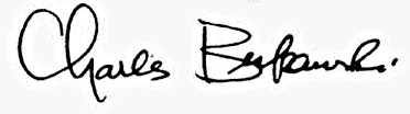 Signature of Bukowski